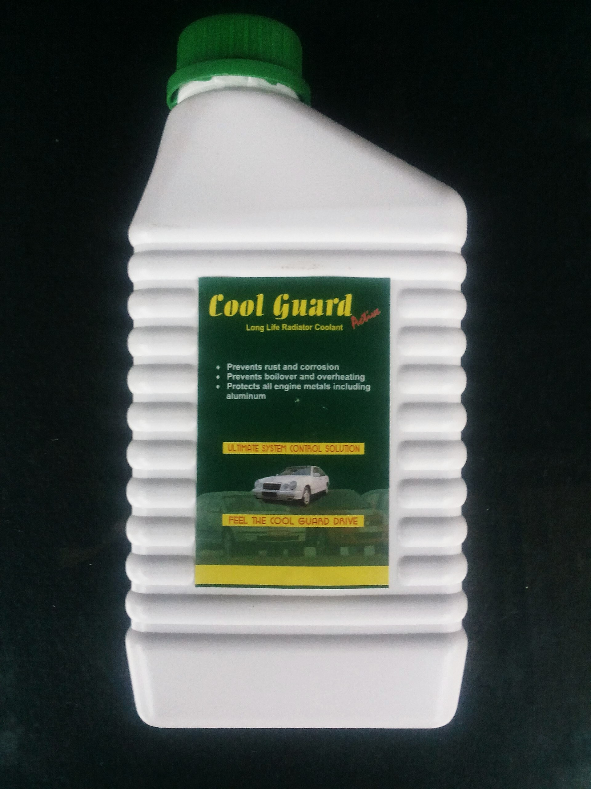 Coolant used in cars.which also acts as antifreeze